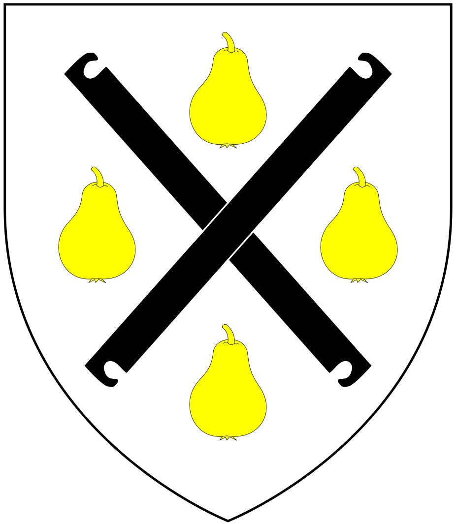 Arms of Kelloway of Stowford inthe parish of Dolton, Devon: Argent, two grozing irons in saltire sable between four Kelway pears proper (Vivian, Lt.Col. J.L., (Ed.) The Visitations of the County of Devon: Comprising the Heralds' Visitations of 1531, 1564 & 1620, Exeter, 1895, p.510, which blazon adds a bordure engrailed of the second) The arms of Kelloway visible in the churches of Dolton, Iddesleigh and Dowland do not show such a bordure. Grozing irons are used in the manufacture of stained glass and appear in the arms of the Society of Glaziers.